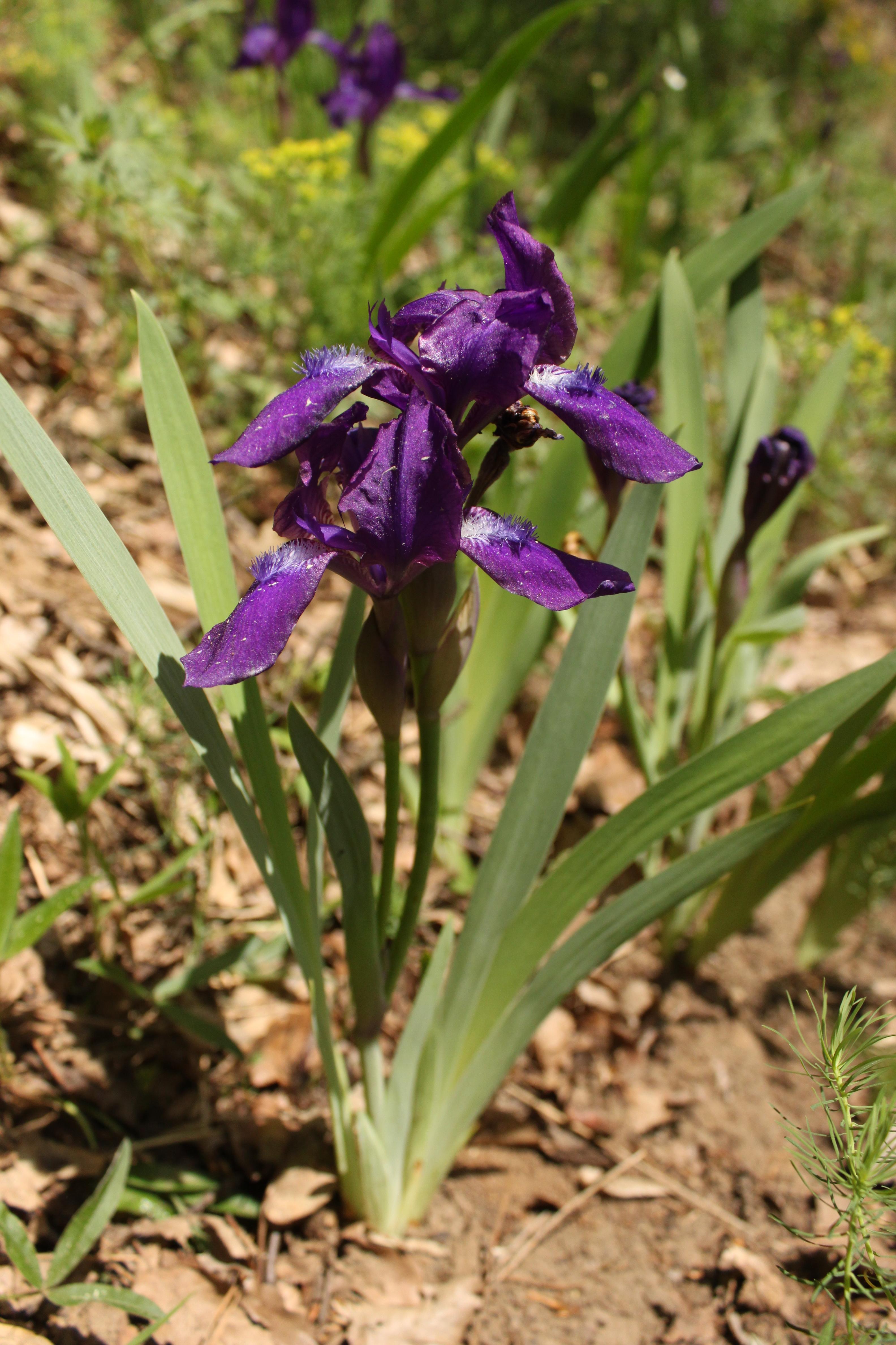 Natural monument "Stráně Truskavenského dolu" in Mělník District, Czech Republic.